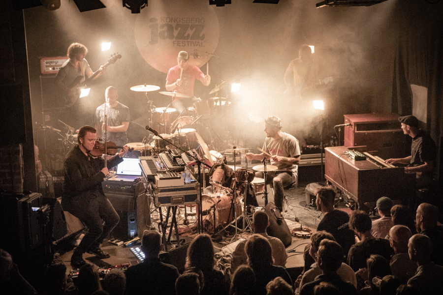 Ola Kvernbergs Steamdome in Energimølla. The concert was part of Kongsberg Jazzfestival and took place on 07. July 2018 in Kongsberg. Lineup:Ola Kvernberg (viola and keyboard)Erik Nylander (drums)Børge Fjordheim (drums)Martin Windstad (percussion)Nikolai Hængsle (bass guitar)Alexander Pettersen (guitar)Daniel Buner Formo (organ)